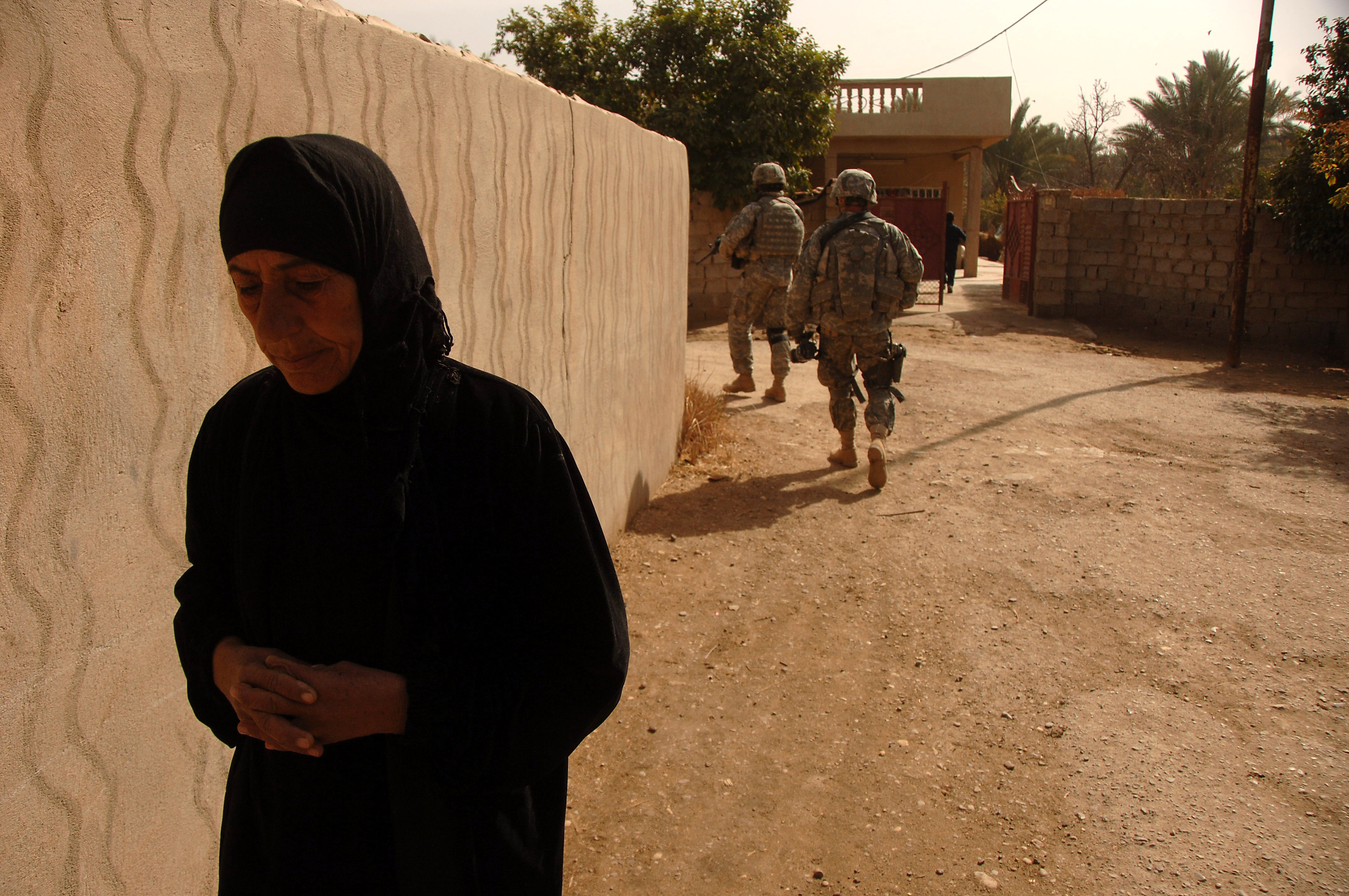 A local women passes a team of U.S. Army Soldiers from Alpha Company as they patrol through an alleyway while conducting a joint clearing operation with local Abna'a Al Iraq through a group of small villages, south of Salman Pak, Iraq, Feb. 16. They've been known to have recently been occupied by Al-Qaida members. Alpha Company Soldiers are from 1st Battalion, 15th Infantry Regiment, 3rd Heavy Brigade Combat Team, 3rd Infantry Division.